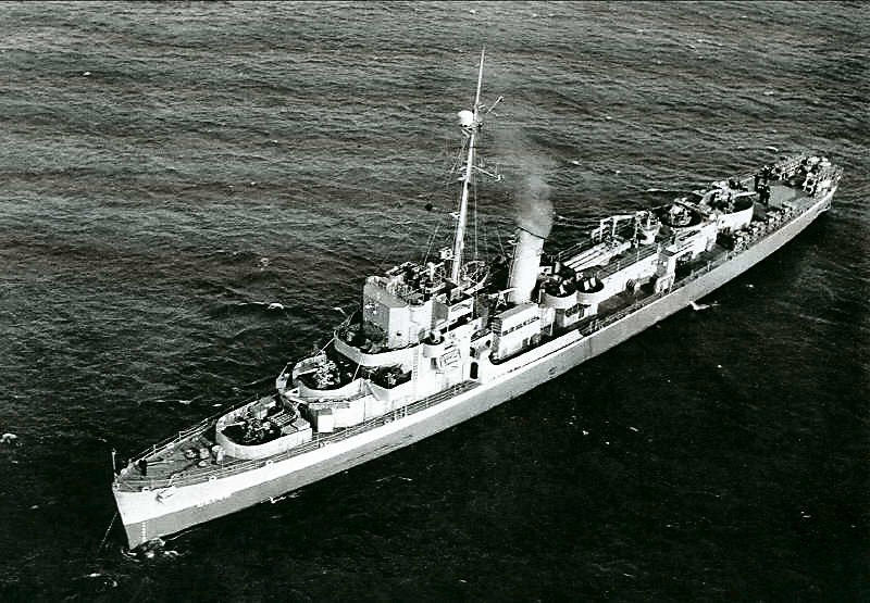 The U.S. Navy destroyer escort USS Brough (DE-148) at anchor, circa in 1944.